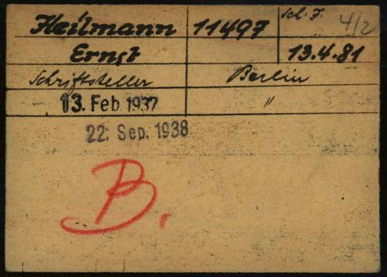 Registry card of Ernst Heilmann as a prisoner at Dachau Nazi Concentration Camp. The “J” on top right corner identifies Heilmann as a Jew. The red “B.” penciled on the bottom left indicated Heilmann's transfer to Buchenwald.